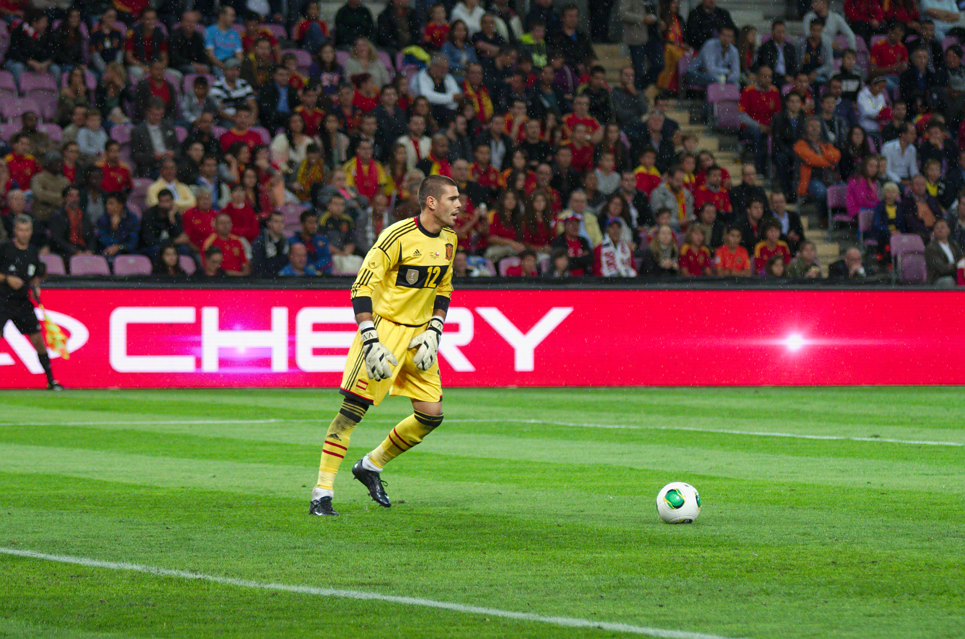 Spain - Chile - 10-09-2013 - Geneva - Victor Valdes